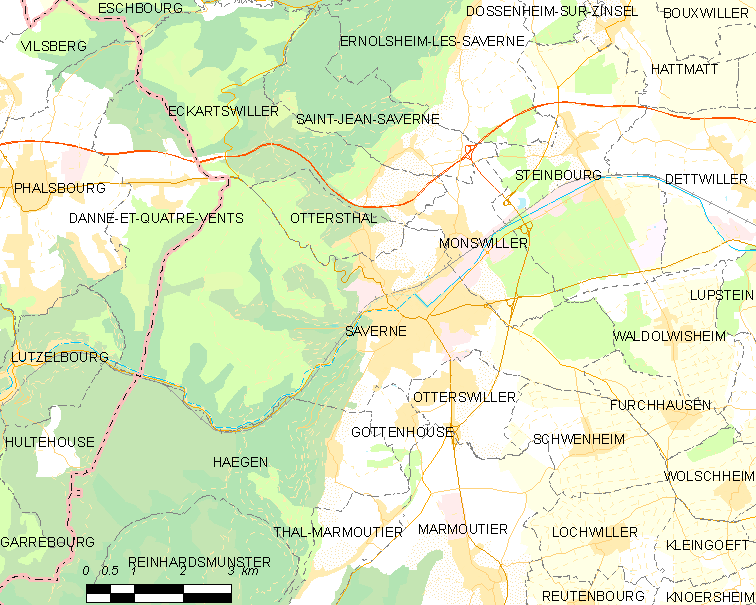 Map of French municipality